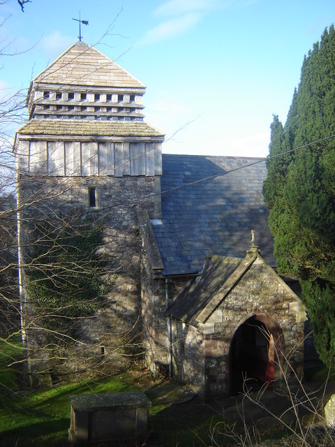 St David's church, Llanddewi Rhydderch Image photographed from elevated position up some steps to south west of church - footpath marked on map.